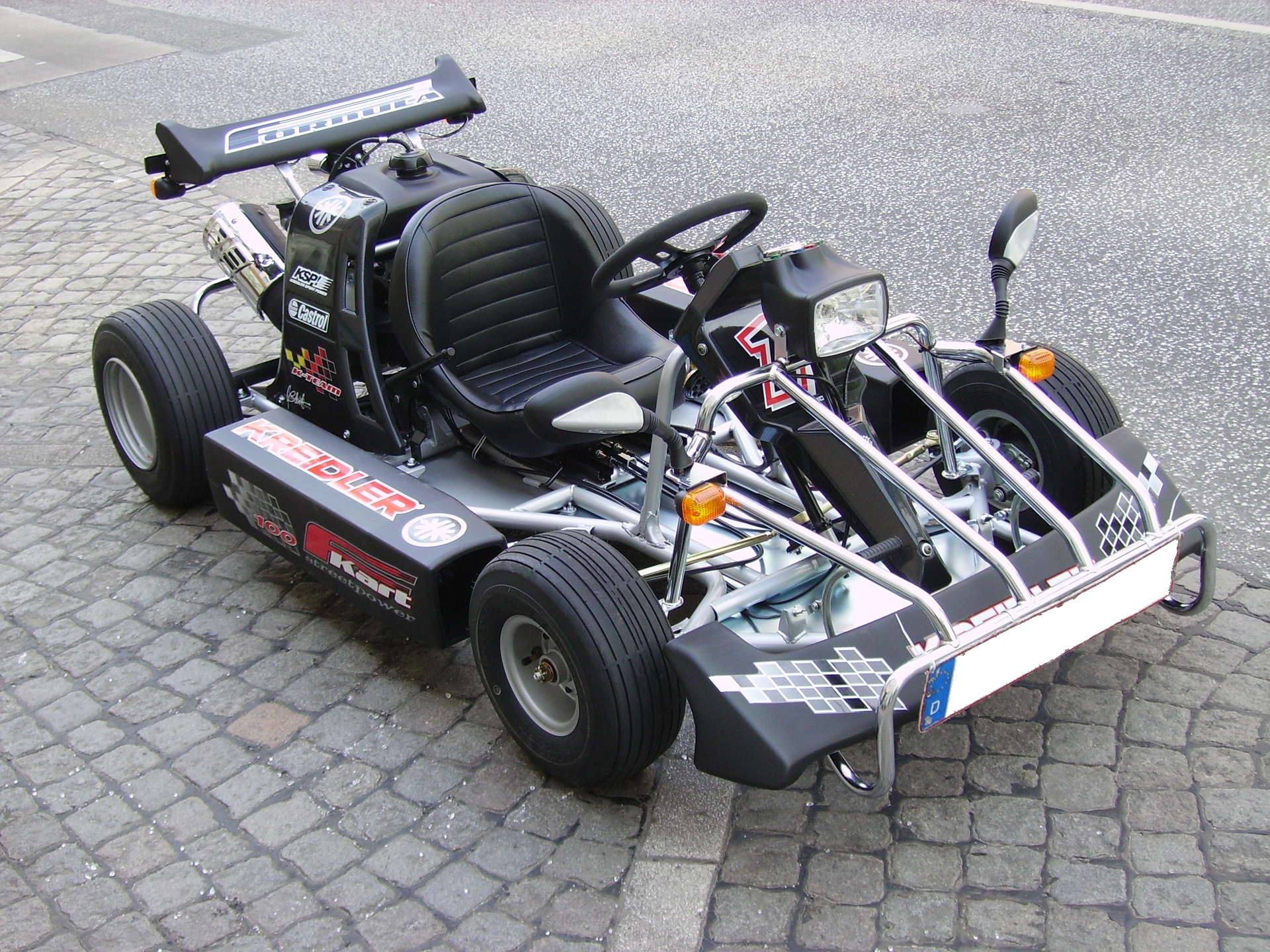 A Kreidler F 100 Kart which may be used on public streets